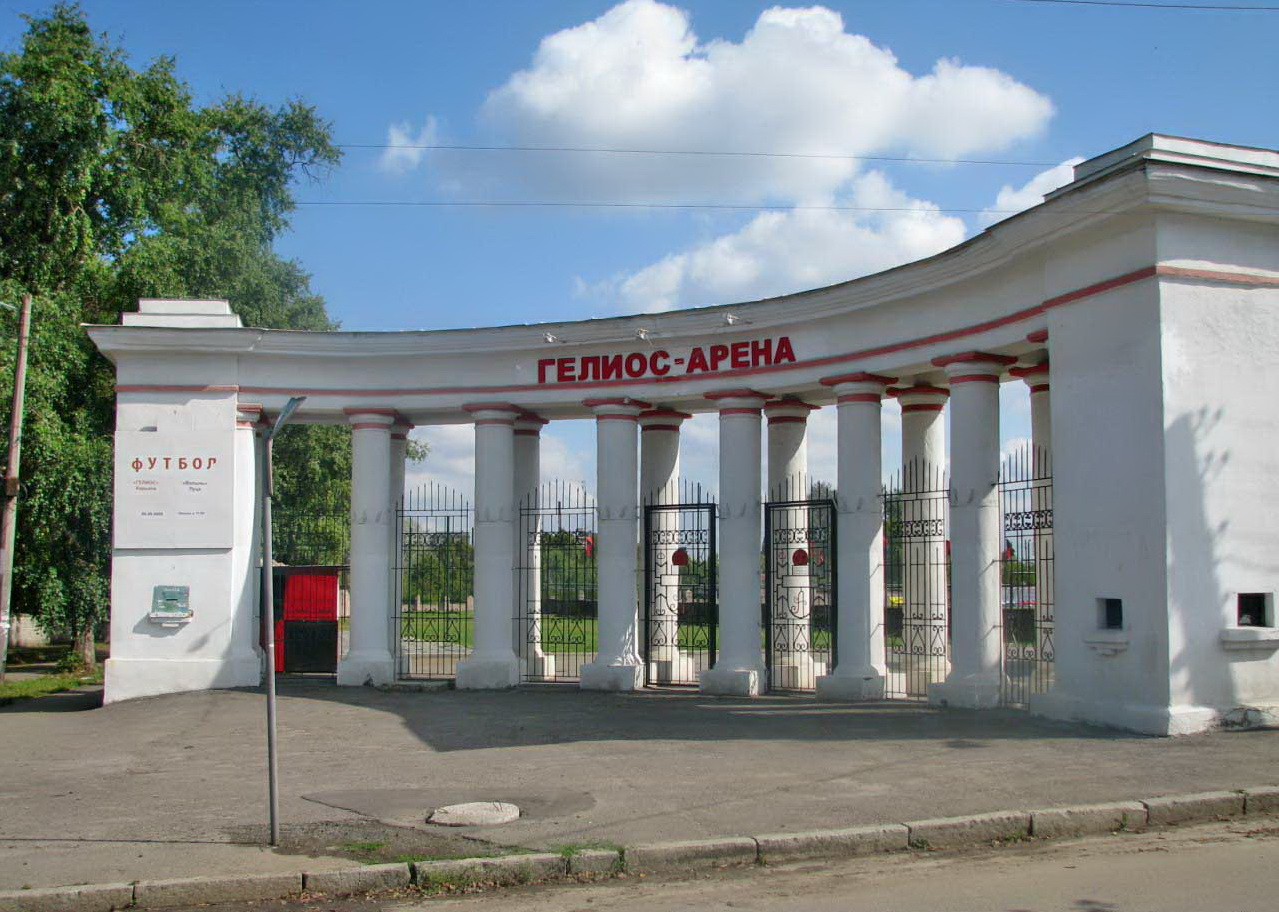 Helios-Arena in Kharkiv, Ukraine